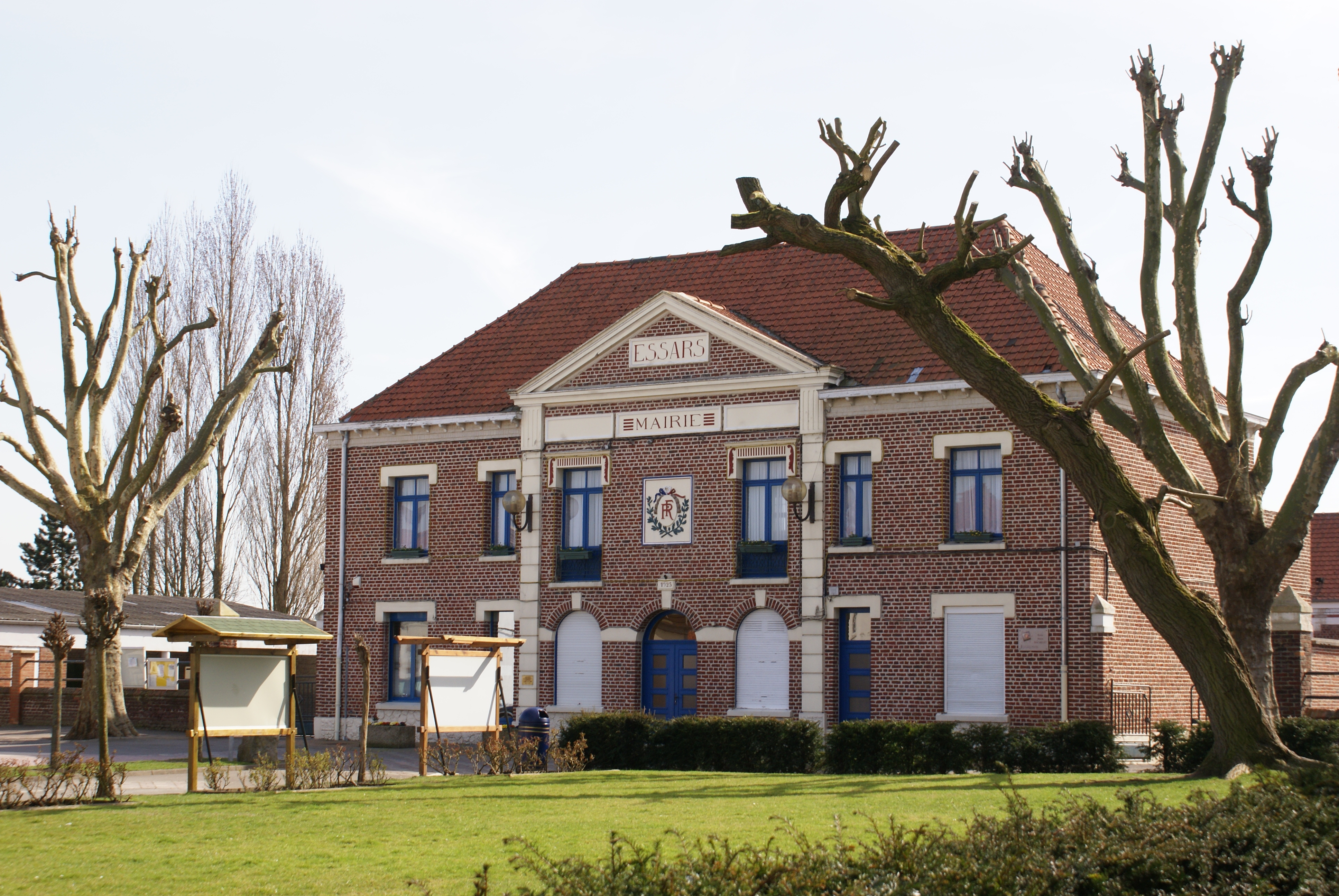 townhall of Essars